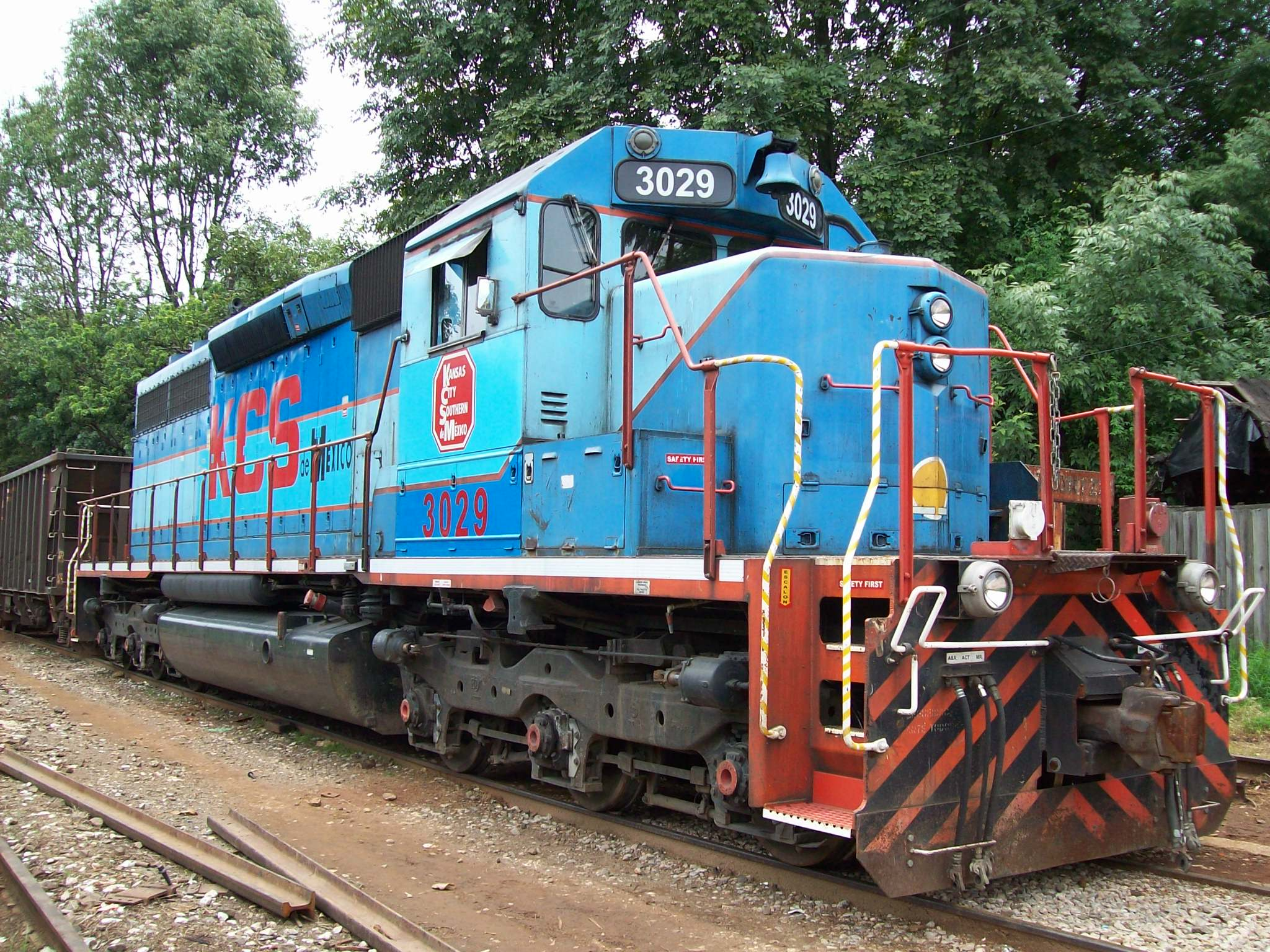 GMD SD40 KCSdeM 3029 Built by GMD at London, Ontario (Low-nose headlight, bell between number boards)